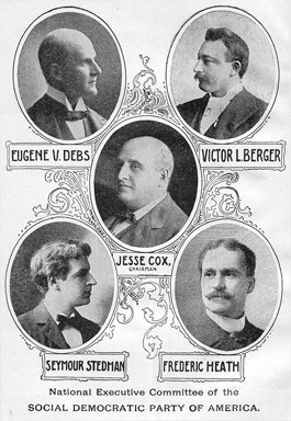 Members of the National Executive Committee of the Social Democratic Party of America in 1900.